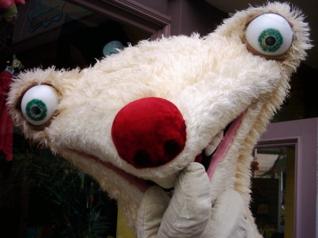 Movie Park Germany - Sid from Ice Age